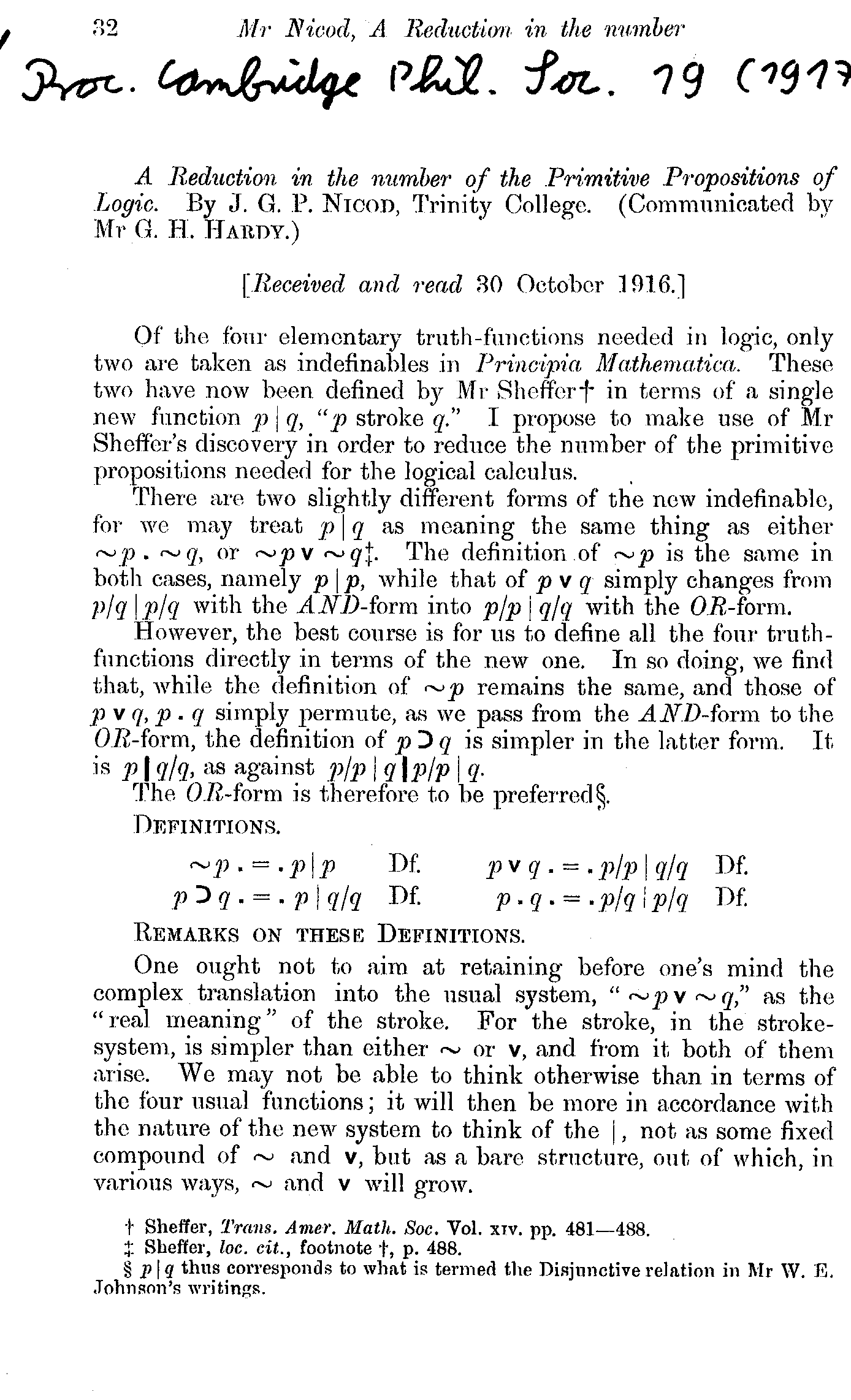 Scanned page from "A Reduction in the number of the Primitive Propositions of Logic"